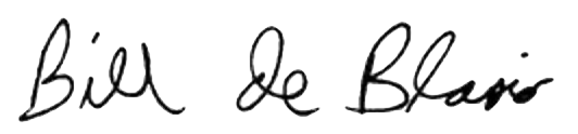 Signature of Bill de Blasio.